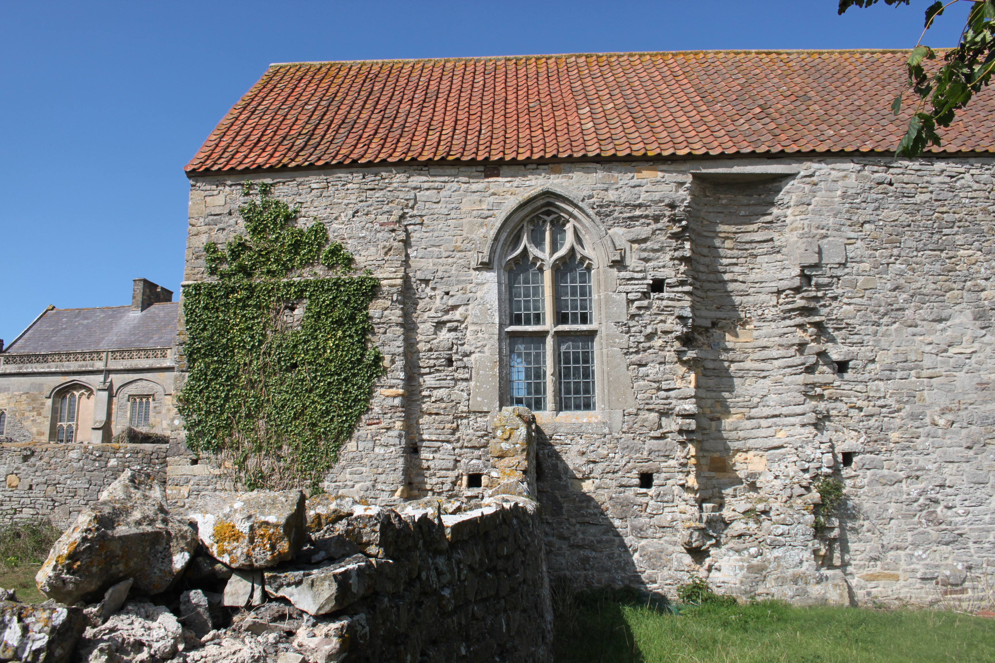 Infirmary